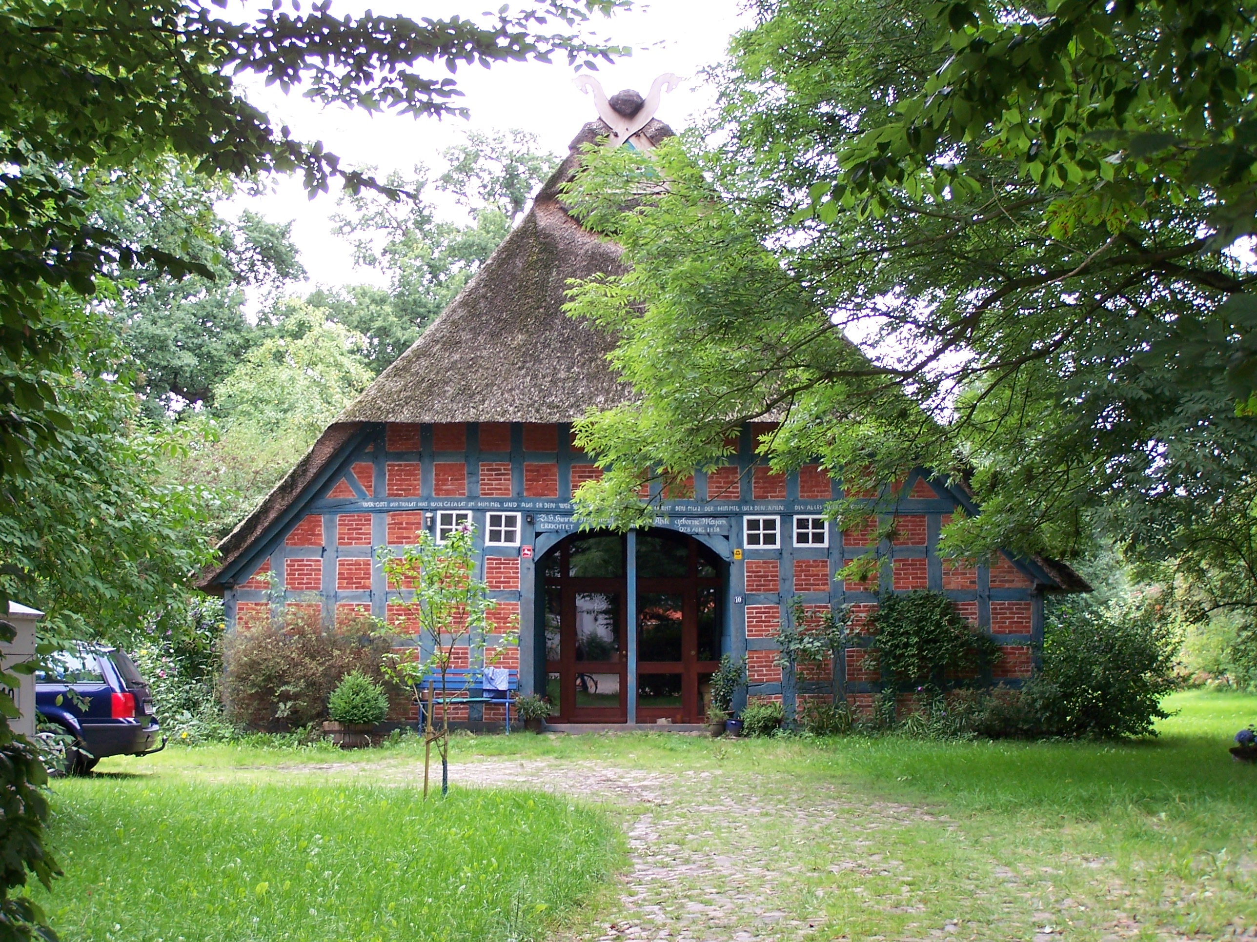 Wilstedt Haus